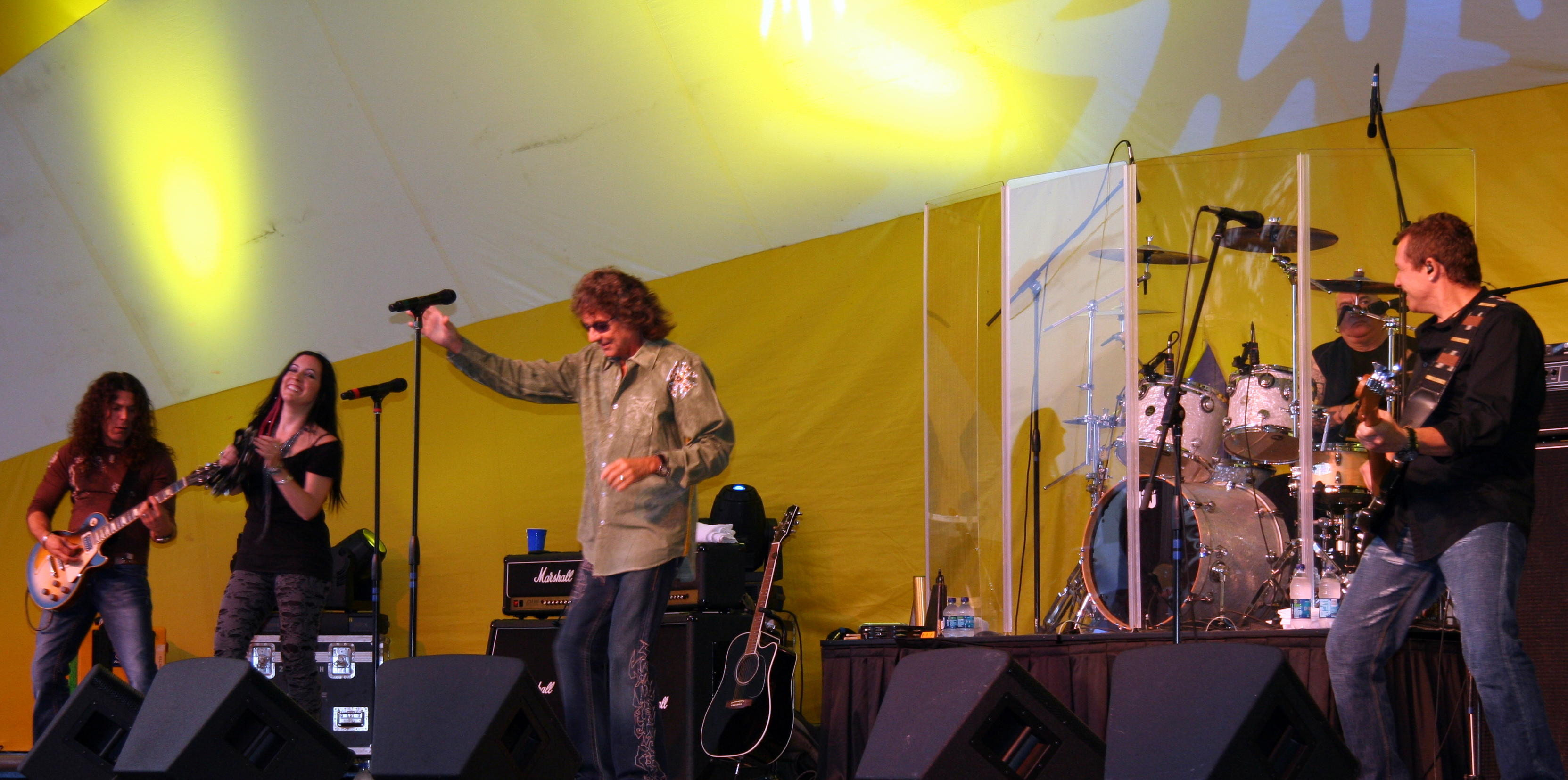 Starship at the beginning of an outdoor concert in Rochester, Minnesota